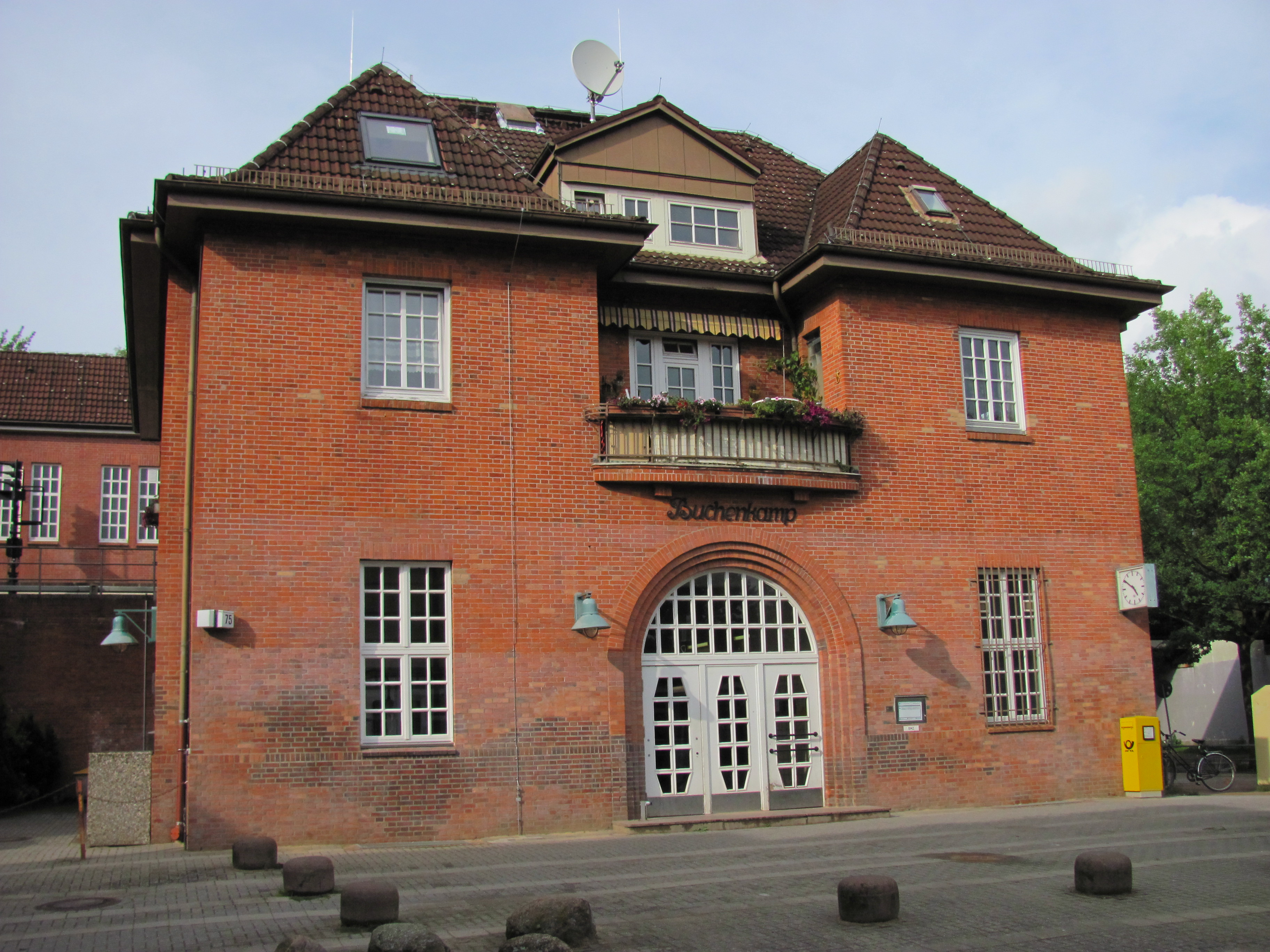 U-Bahn station Buchenkamp in Hamburg, Germany